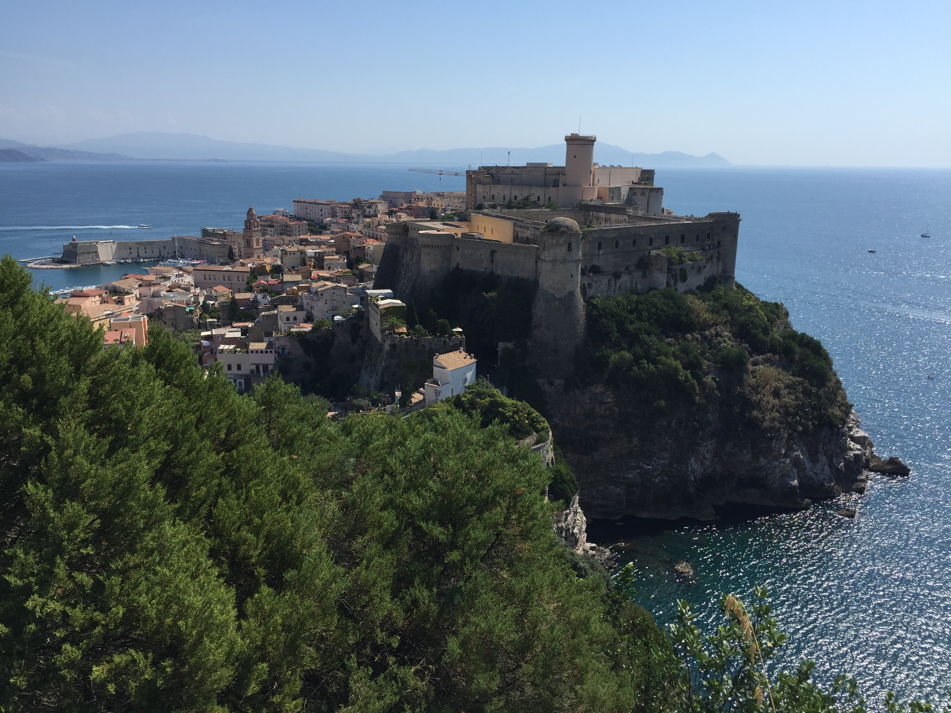 Gaeta (castle) from Monte_Orlando